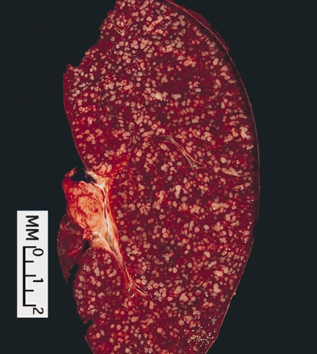 LYMPH NODES-SPLEEN: SPLENIC INVOLVEMENT BY FOLLICULAR LYMPHOMA This illustration depicts the classic appearance of spleen involved by follicular lymphoma, namely the presence of discrete, miliary, small, white "pearly" nodules throughout the whole parenchyma.